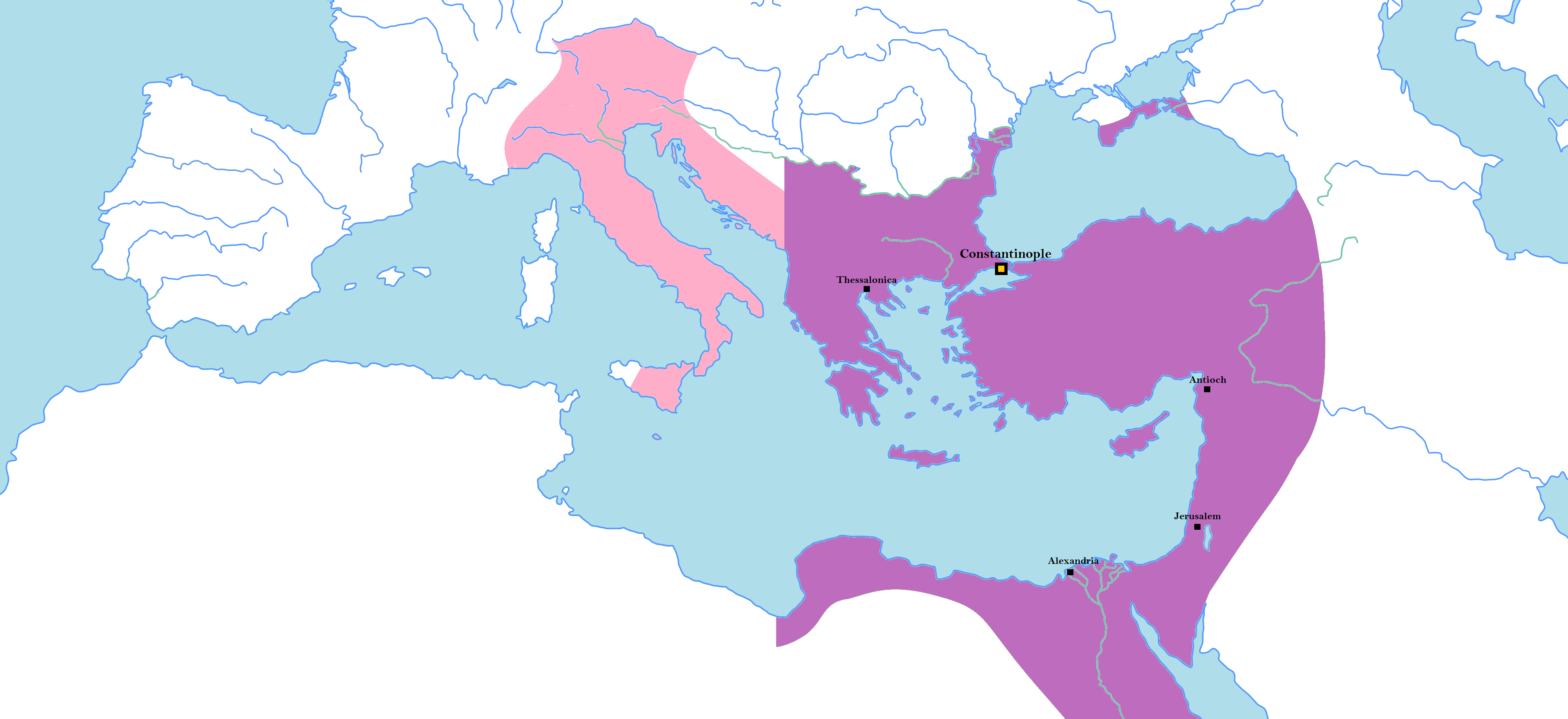 Eastern Roman Empire with the Western Roman Empire in pink, 476-480